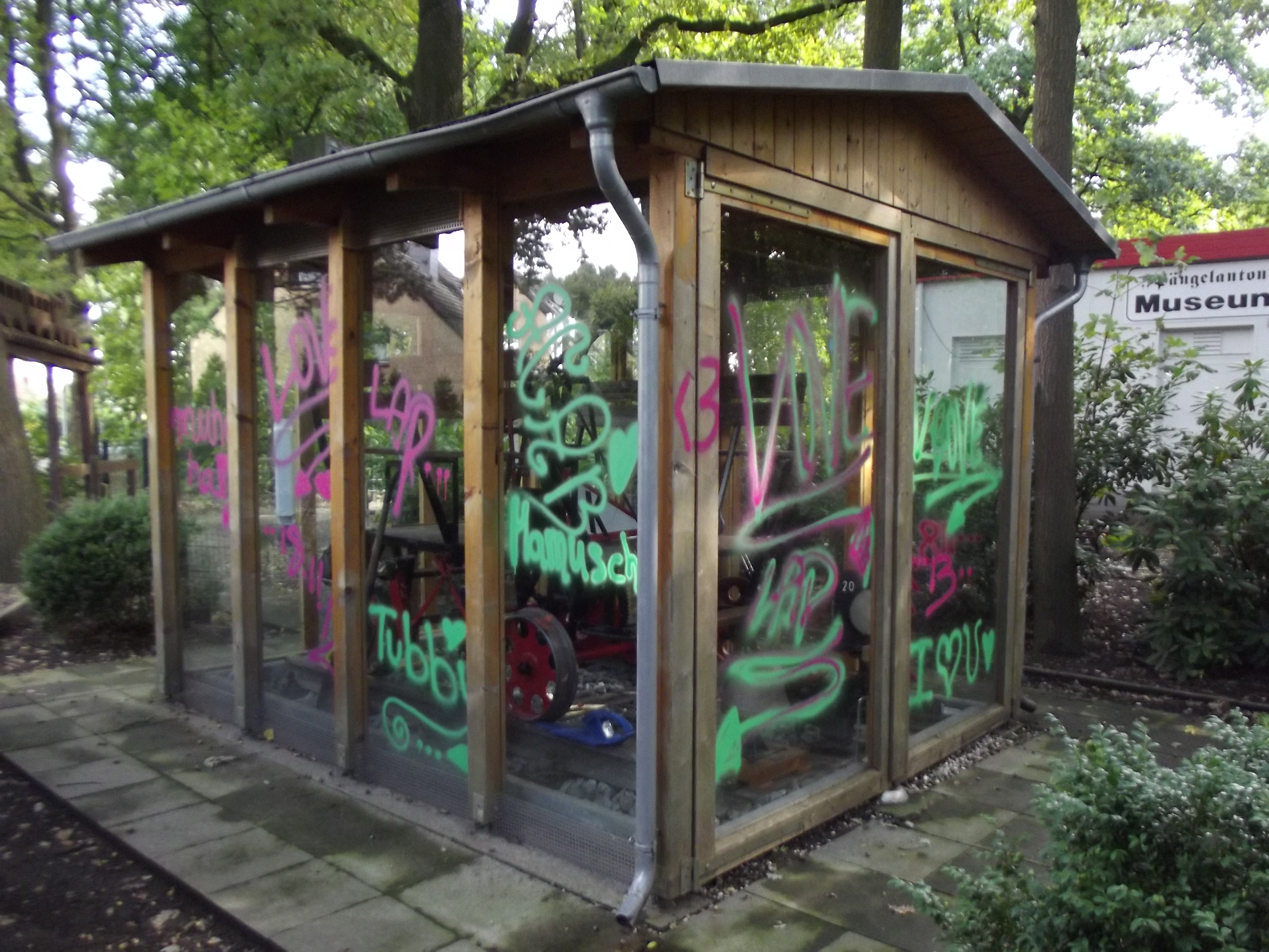 The glass cage belongs to a railway history museum ("Pängelanton") in Münster and is supposed to exhibit a historical draisine but the visitors can not see it properly anymore because somebody marked their territory